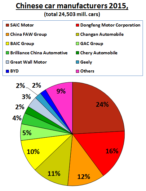 Largest automobile manufacturers (including joint ventures & subsidaries) in China and their relative share (%) of the 24,503 million cars produced. Sources of the data (millions cars) is included as part of the Finnish wikipedia article about Automotive industry in China (Kiinan autoteollisuus).